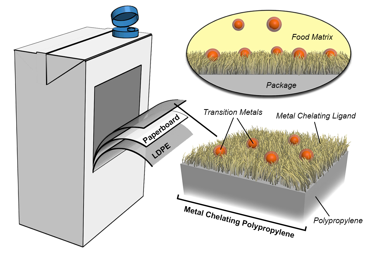 Trace transition metals can be partitioned to the packaging interface and are therefore not available for inducing oxidative degradation of food components.